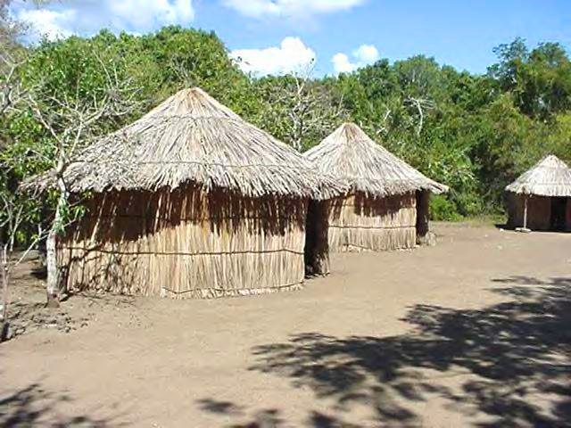 Image of Taíno village at Tibes Indigenous Ceremonial Center — in Ponce, Puerto Rico. Файл:Taino Village.jpg Файл:Taino Village.jpg